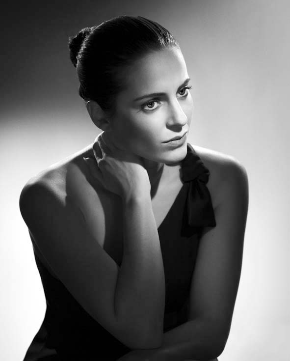 Audrey Dana photographed by Studio Harcourt Paris